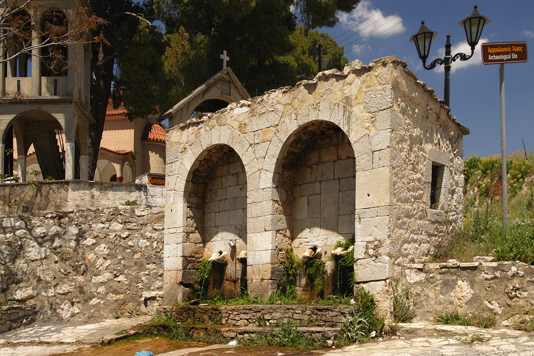 Fountain of drinking water at Nestani (Νεστάνη Αρκαδιας), Peloponnese. The fountain is a monument of tradition of the historical legend of “Philipps Fountain” (Greek: Φιλίππειος Κρήνη) in memory of the famous ancient King Philip II of Macedon, of whom Pausanias (110-180 AD) writes in his famous “Description of Greece”, that he camped here in 338 BC (see ancient site Nestane). The cool, crystalline clear spring water flows out from faucets in a styled stone niche. In this way or in an artificially framed wall there are similar fountains in many Greek villages. The fountain and its environment served as social meeting point until decentral water supply into all houses was established. These premises are well kept and even today, maintained as an element of cultural identity of a village.